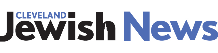 Nameplate of the Cleveland Jewish News